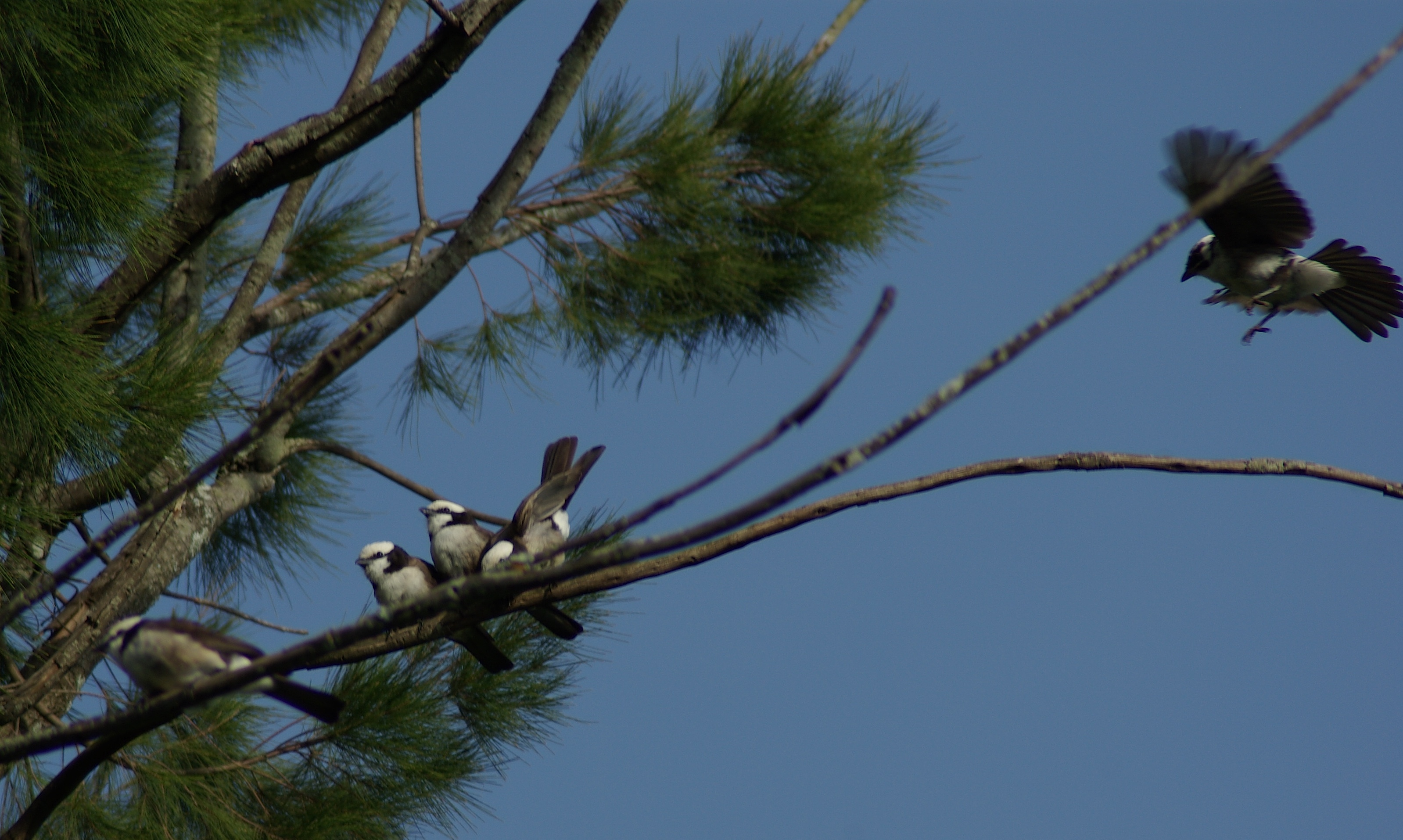 Northern White-crowned Shrikes, Eurocephalus ruepelli, at a roost, Sweetwaters Tented Camp, Kenya. The time stamp is 10 hours too early.